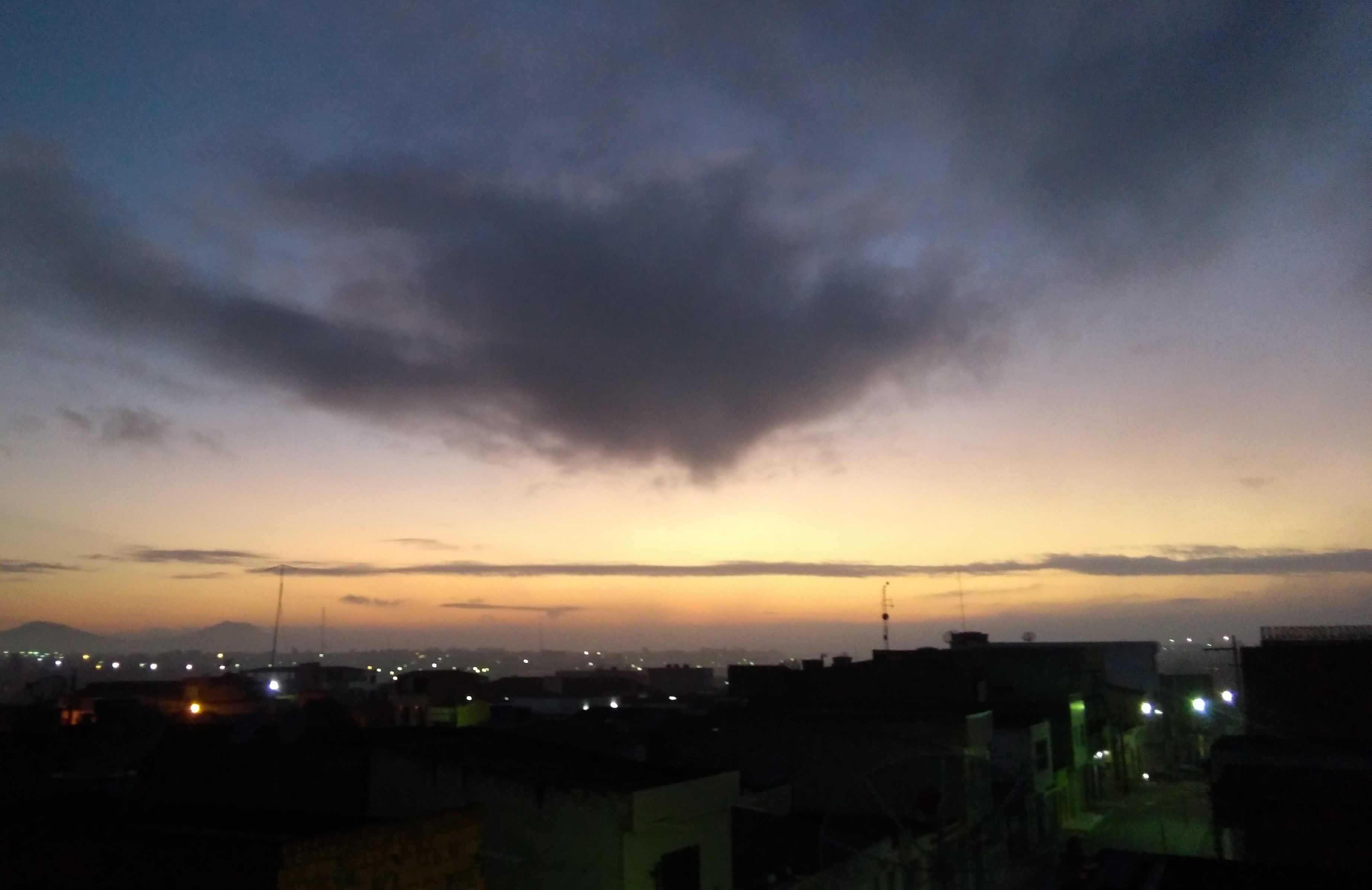 ret5